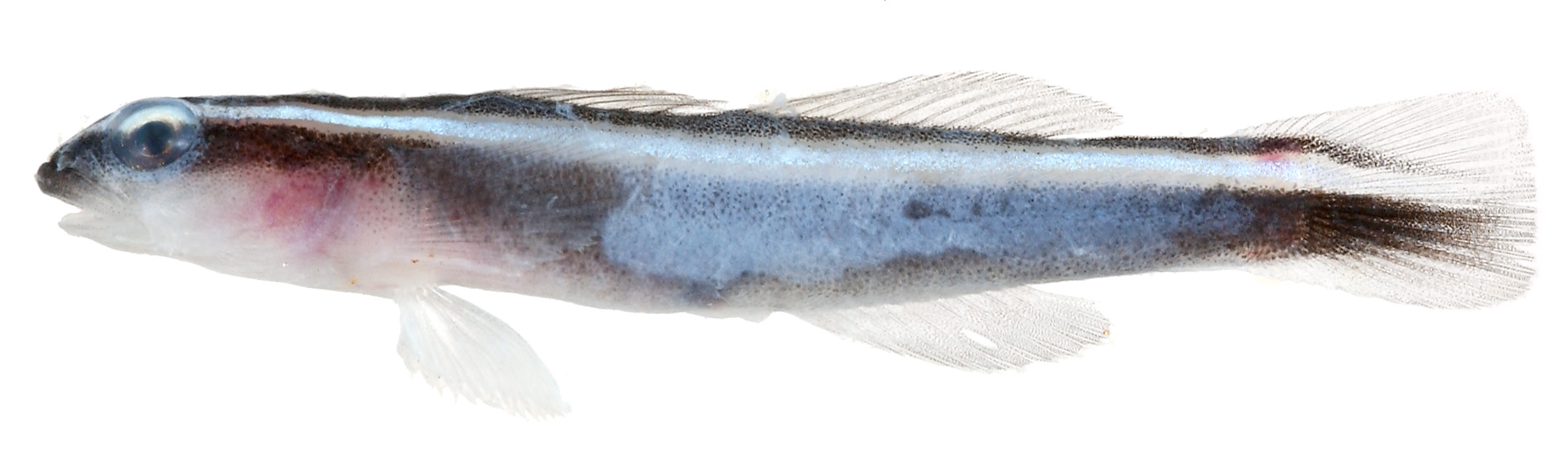 Description: This image was taken with a Nikon D1X 5.47-megapixel camera with a 105-millimeter f/2.8D AF Micro-Nikkor lens and dual Nikon SB28 flash units. Creator/Photographer: Belize Larval-Fish Group 2002 The Division of Fishes of the Smithsonian's National Museum Natural History has sent several teams to Belize in order to photograph larvae in the field. The 2002 team included Julie H. Mounts, David G. Smith, Carole C. Baldwin, and James Van Tassell. Medium: Digital photograph Geography: Belize Date: 2002 Repository: National Museum of Natural History, Division of Fishes Image ID: C3-23 VT-02-046